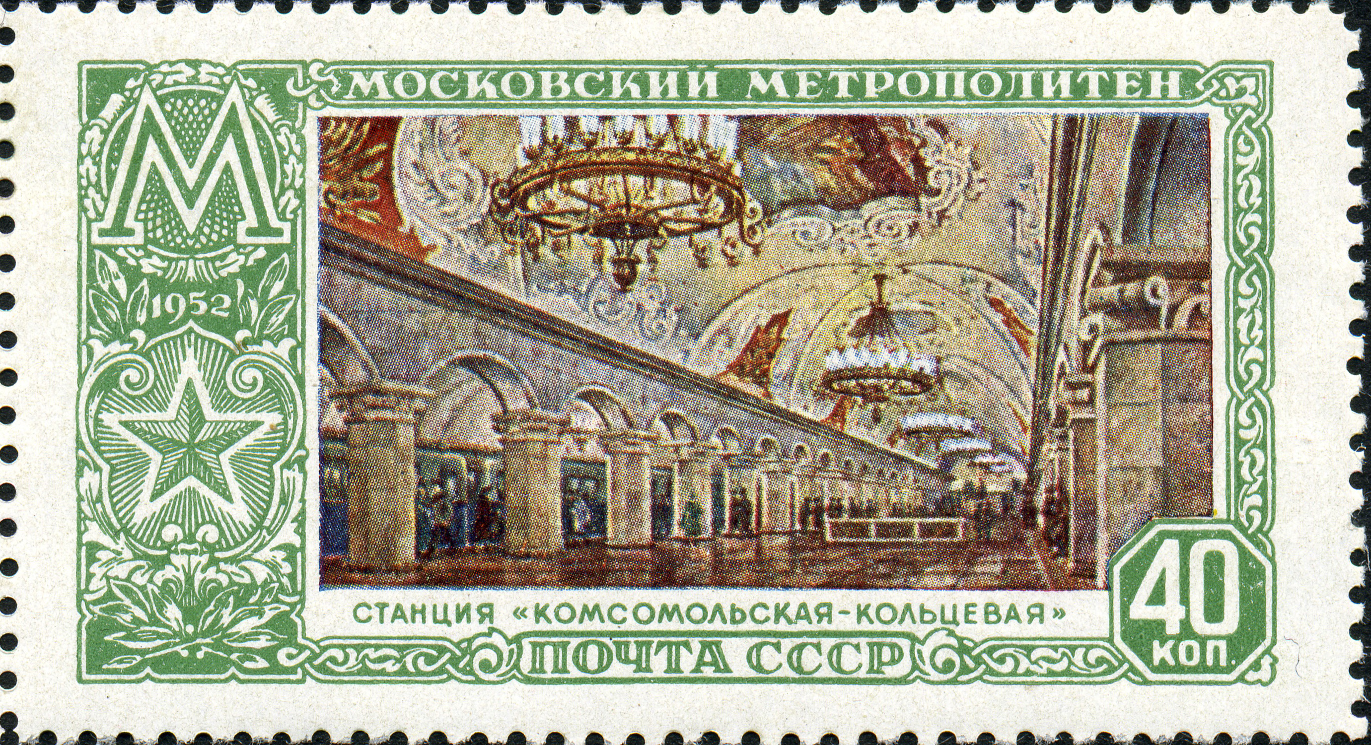 Stamp of the Soviet Union, Komsomolskaya-Koltsevaya (Moscow Metro station), 1952, CPA #1713.